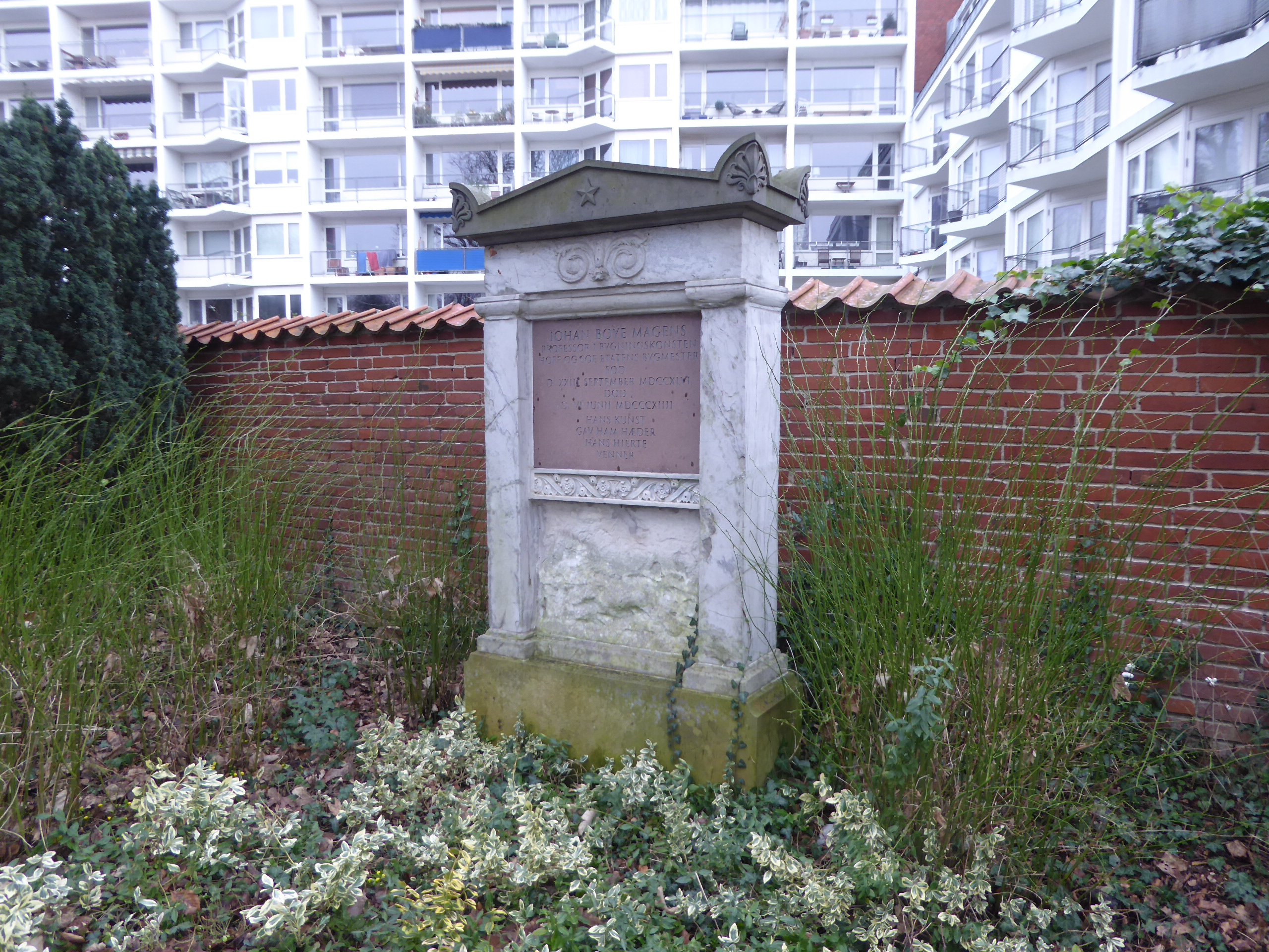 Grave of the architect and master builder Boye Magens (1748-1814) at Holmens Kirkegård in Copenhagen. The monument was created by Nicolai Dajon.